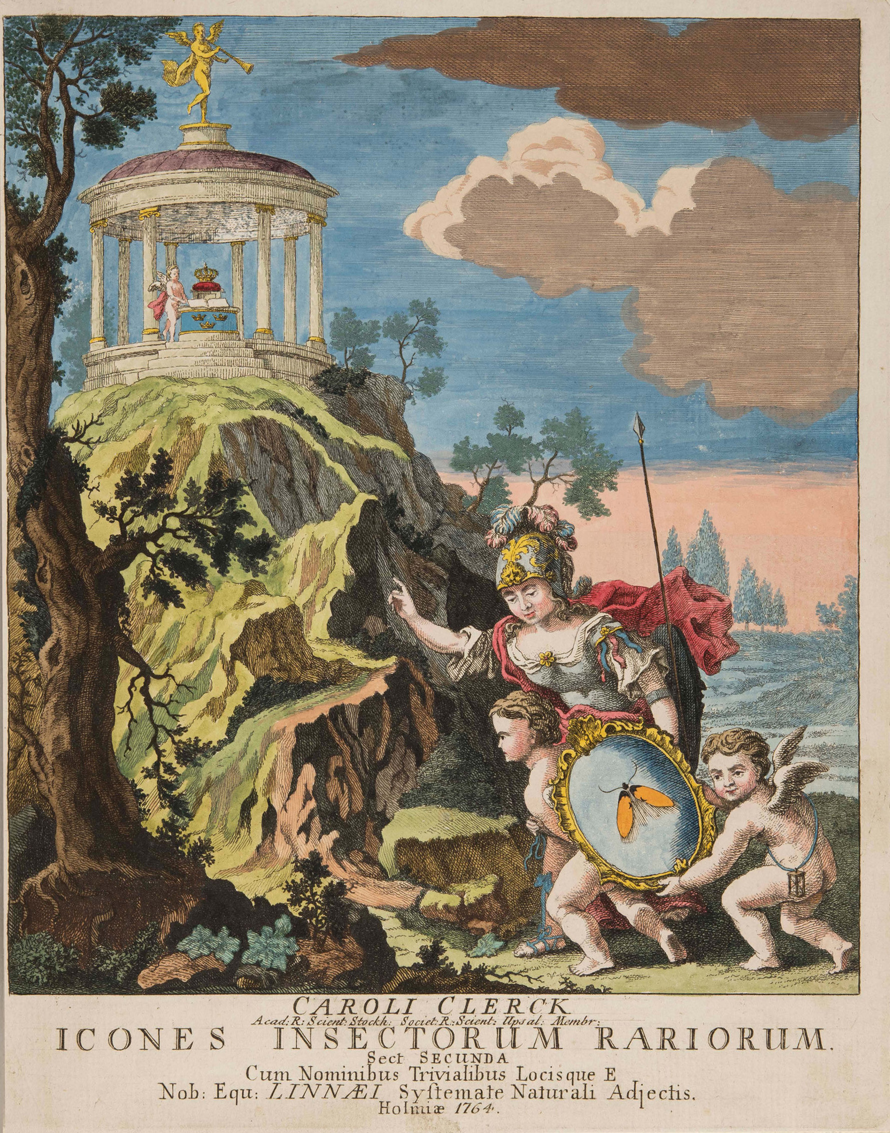 Icones_insectorum_rariorum by Carl Alexander Clerck. Title page.